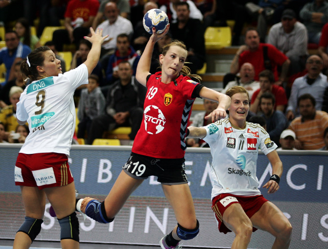 Maja Zebic